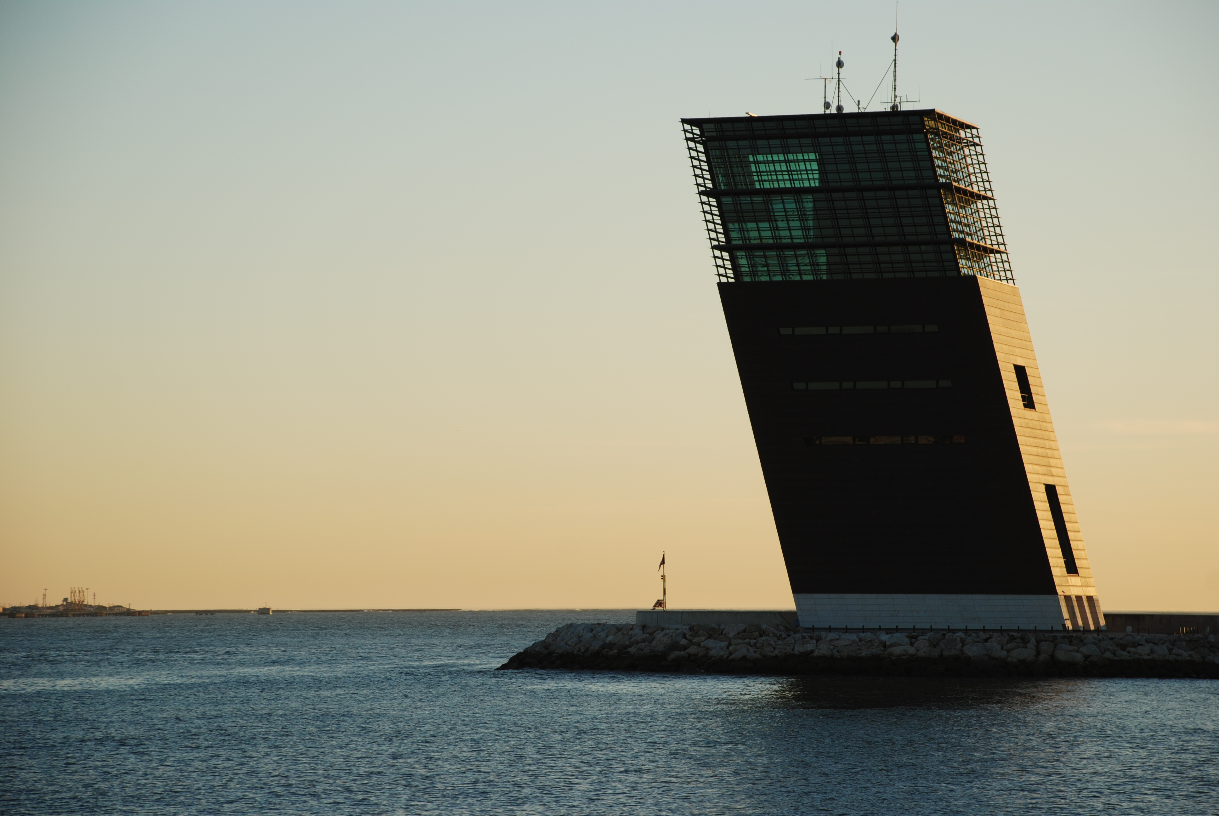 Marine Traffic Control Tower for the Port of Lisbon Authority